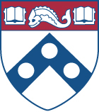 "The Official Shield of the University of Pennsylvania"